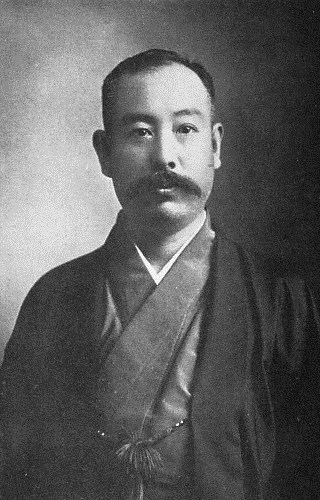 Shigemochi So